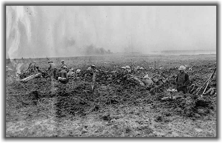 Official war photo of Vimy Ridge in en:1917. Photographer: Jack Turner Source. Digital Collections website operated by the Government of Canada. Category:Battle of Vimy Ridge Category:World War I forces of Canada Ð¡Ð»Ð¸ÐºÐ°:Vimy Ridge.jpg